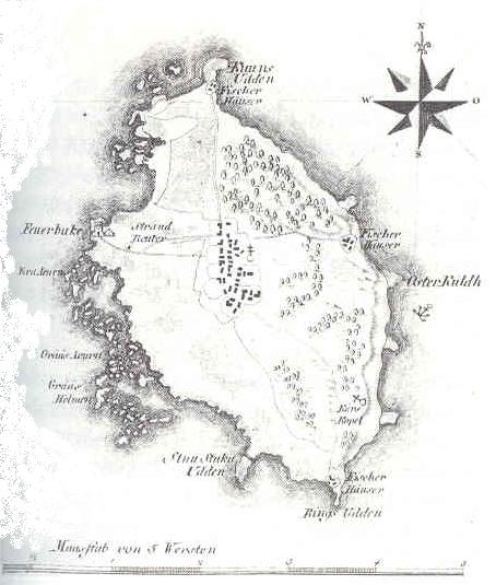 Old 18th-century map of the Estonian island Ruhnu (Runö in Swedish)